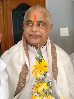 Tammineni Seetharam, Andhra pradesh 2nd speaker